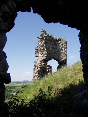 Nagykövesd, Castle, photography